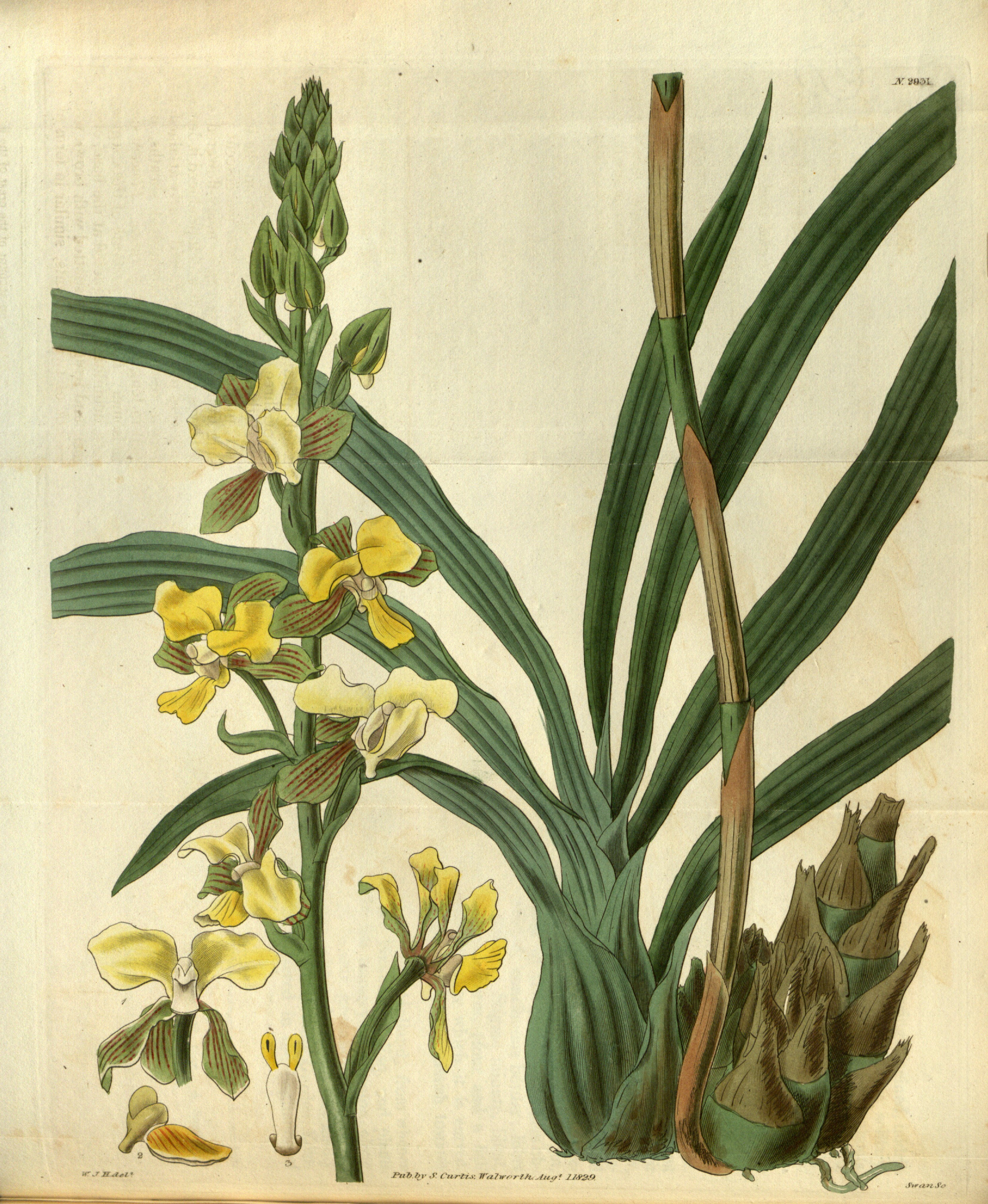 Illustration of Eulophia streptopetala